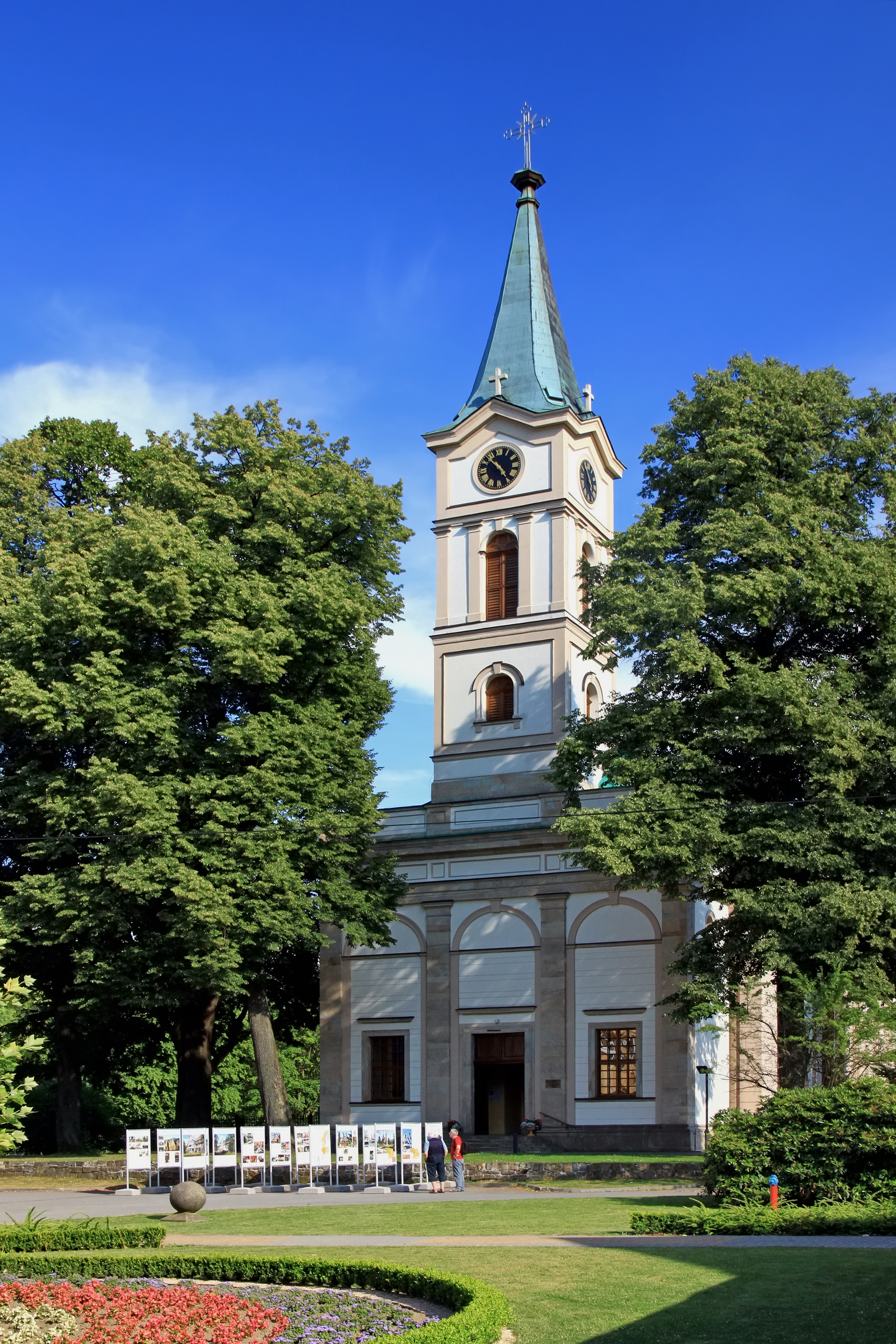 Wisła, lutheran church of the Apostles Peter and Paul, build in 1833-1838